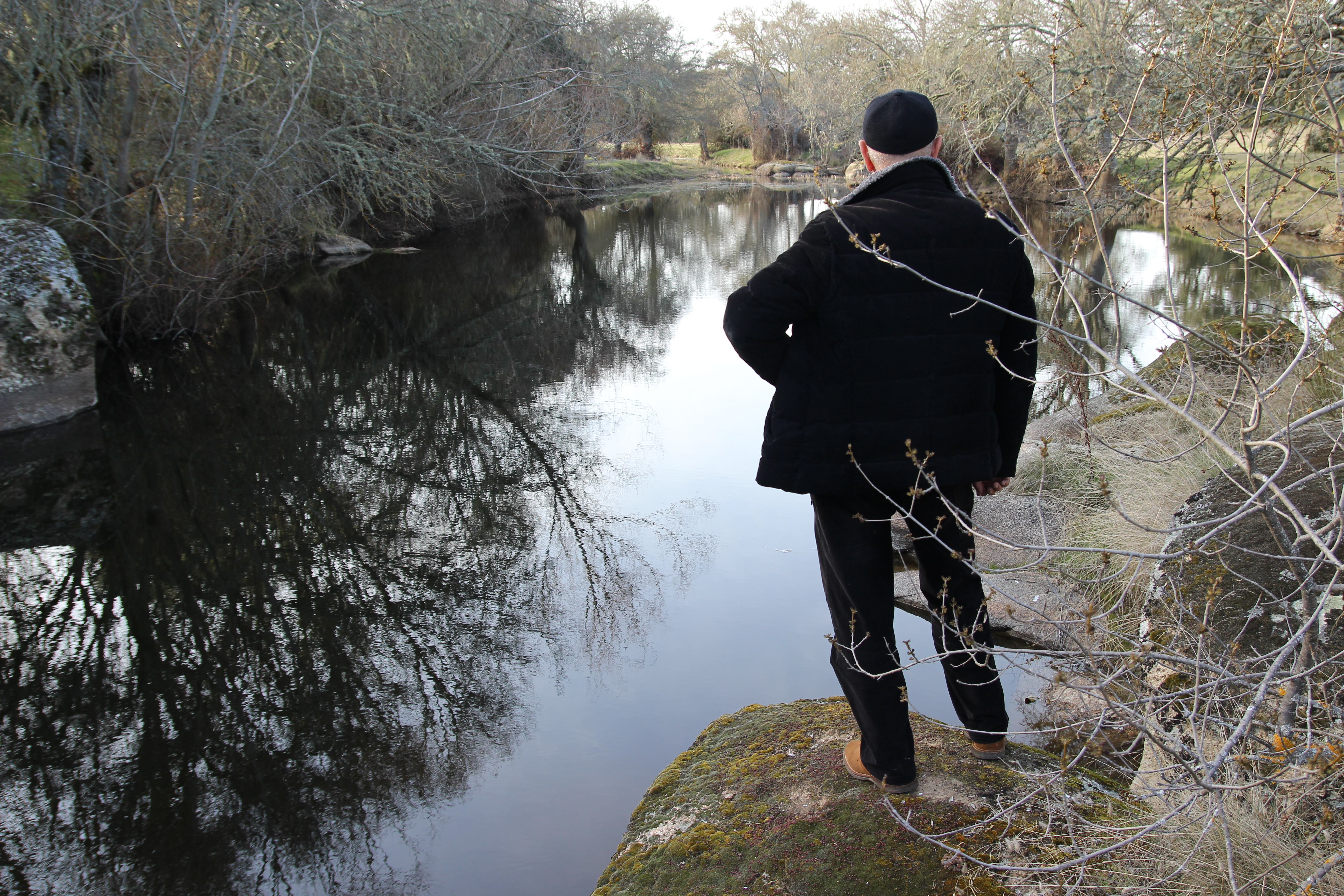 The photographer Miguel Martín in the town of La Mata de Ledesma, province of Salamanca, Castile ang León, Spain, in 2019, Arroyo de la Rivera Chica, Rio Seco, Caozo de Los Diablos